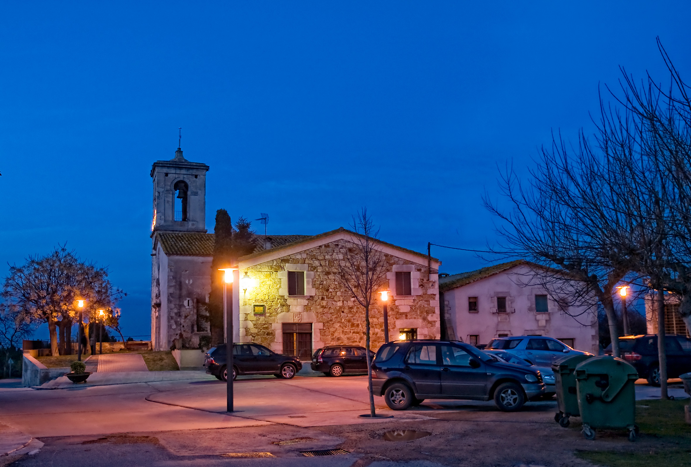 Sant Andreu Salou square (Catalonia, Spain)